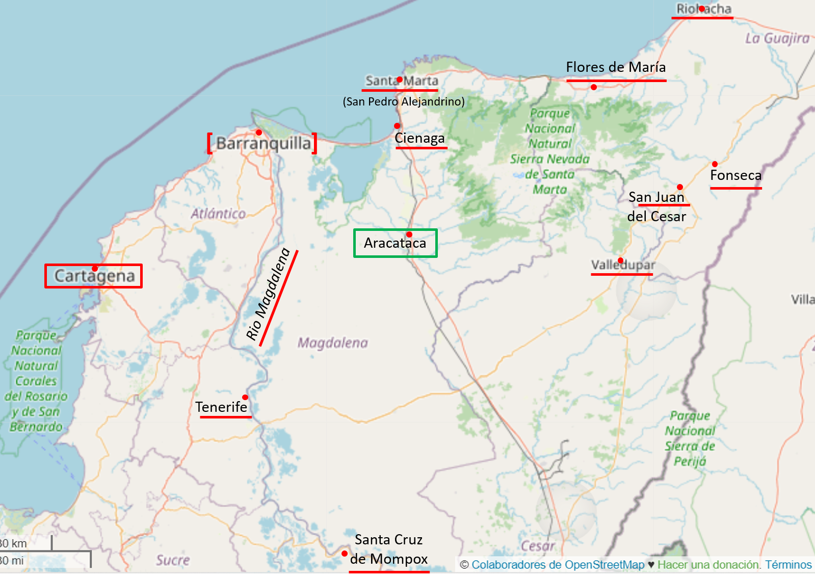 This map locates the main places of action of the novel, both those cited by the author and if they are identifiable. Aracataca does not appear in the novel, it is the city of origin of Gabriel García Márquez, who inspired the Macondo of many of his novels.